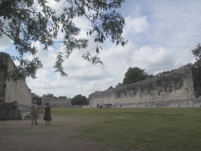 The Ball Court at Chichén Itzá, Mexico.